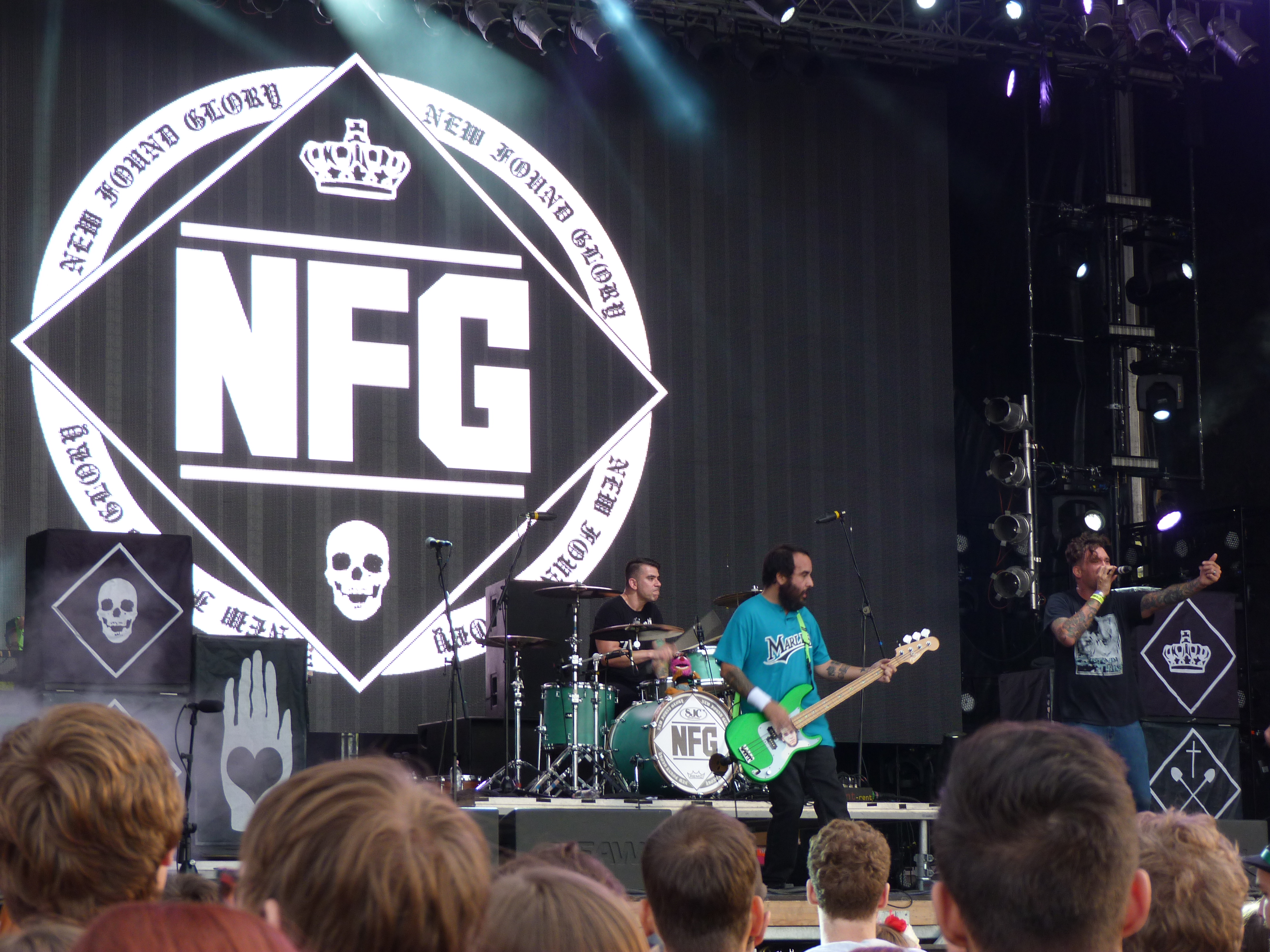 Live on the 19th of August, 2015. Zamárdi, Hungary. Strand Festival. New Found Glory (band).